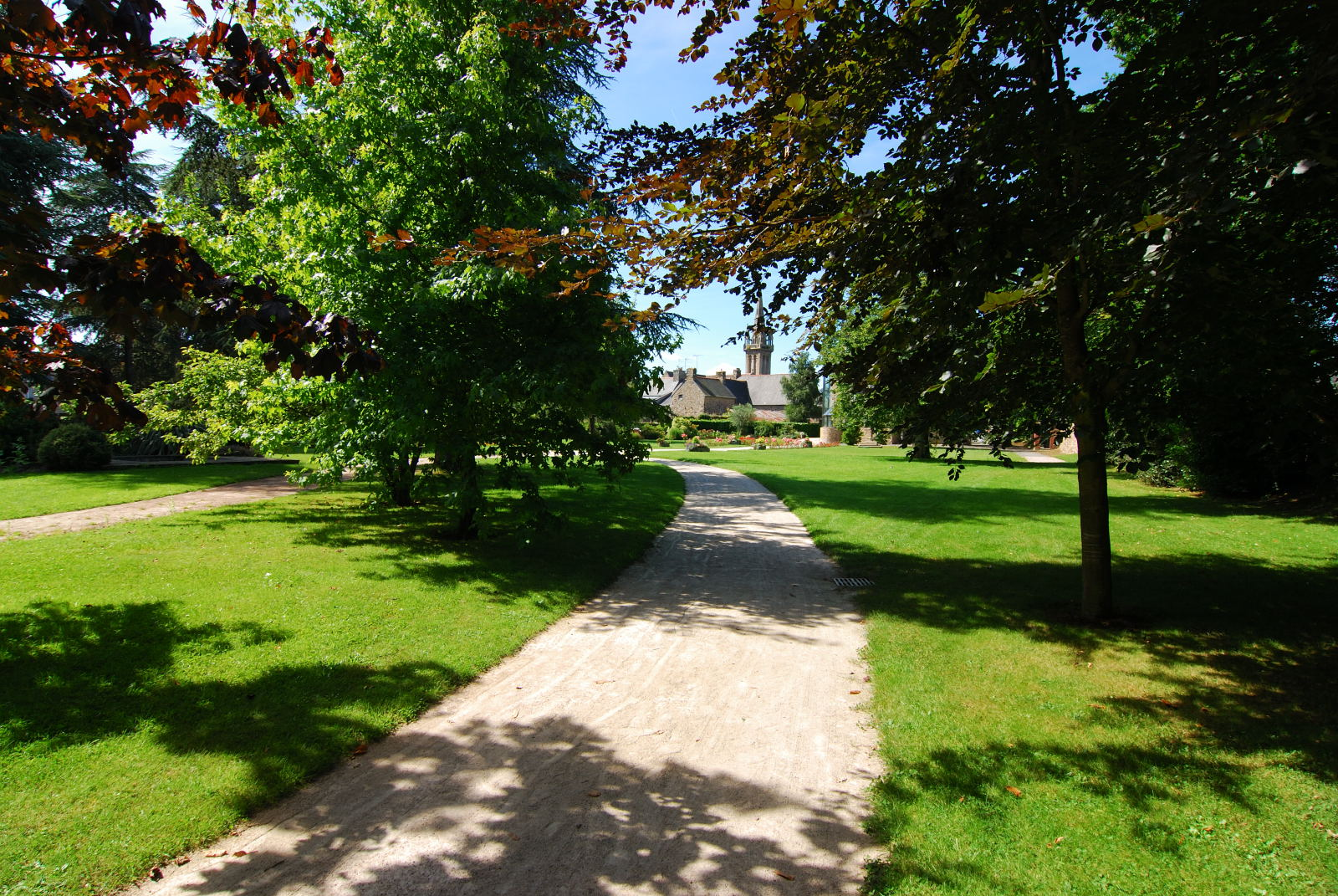 View from the park.